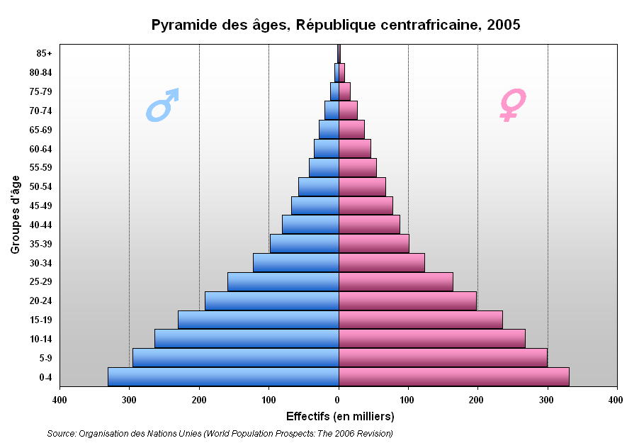 Central African Republic Population pyramid, 2005